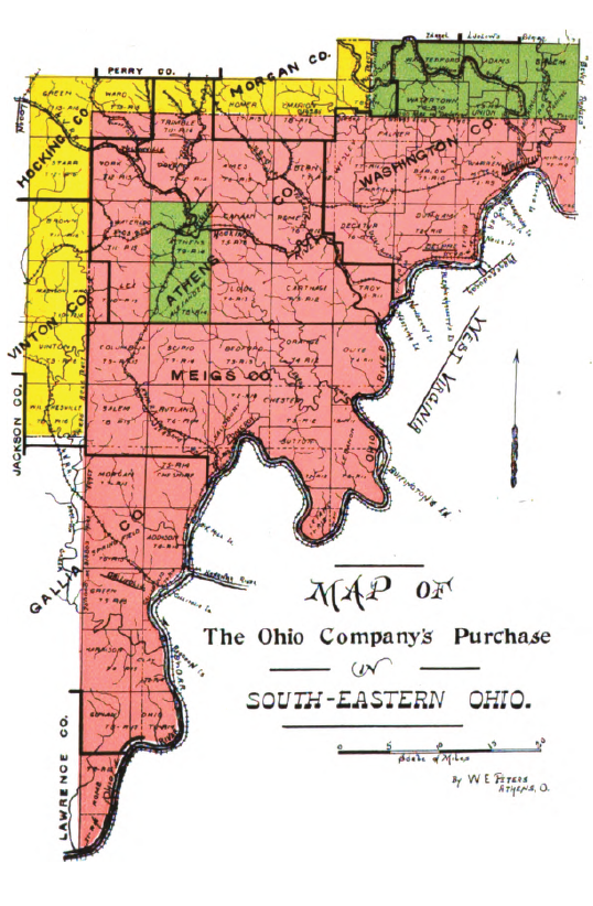 map of tracts bought and donated to the Ohio Company of Associates in the 18th century in southern Ohio